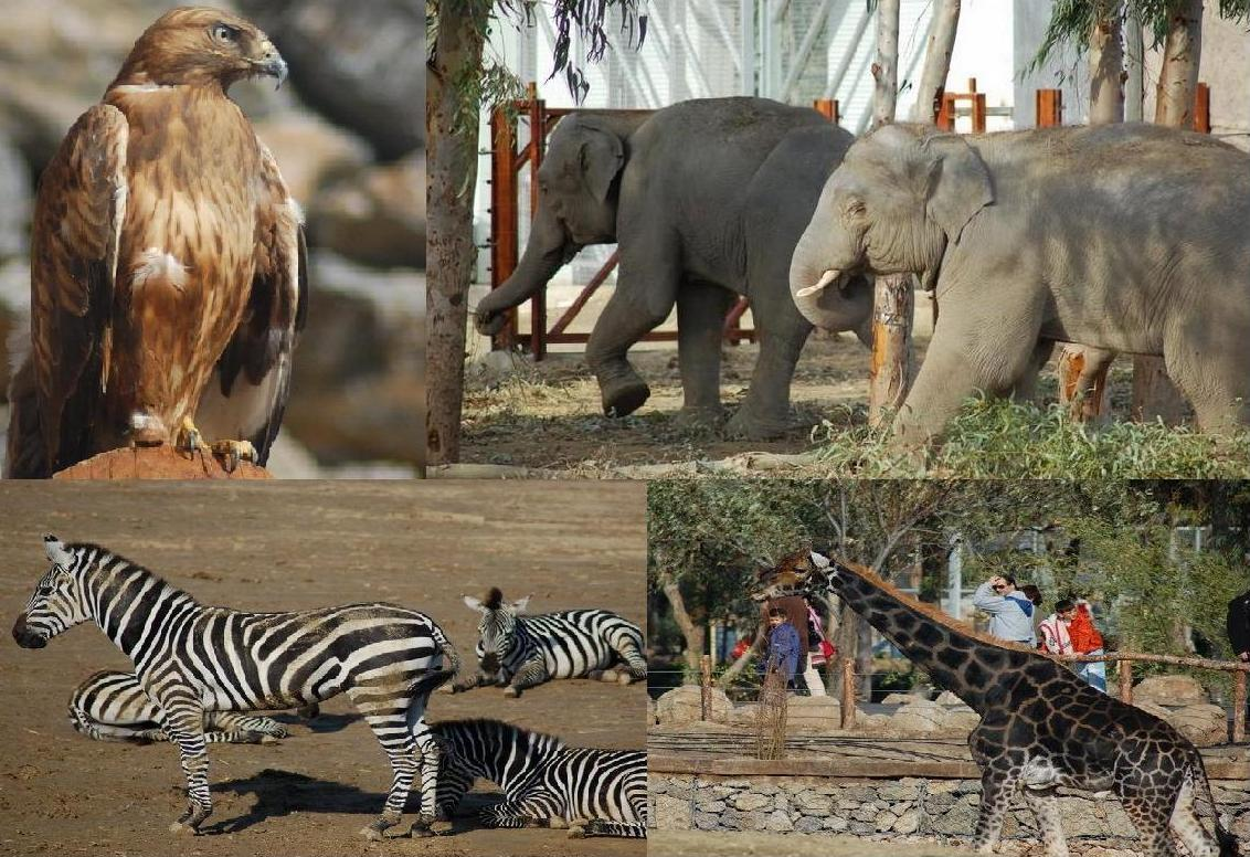 Sasalı Natural Life Park (Doğal Yaşam Parkı) in Çiğli, İzmir, Turkey